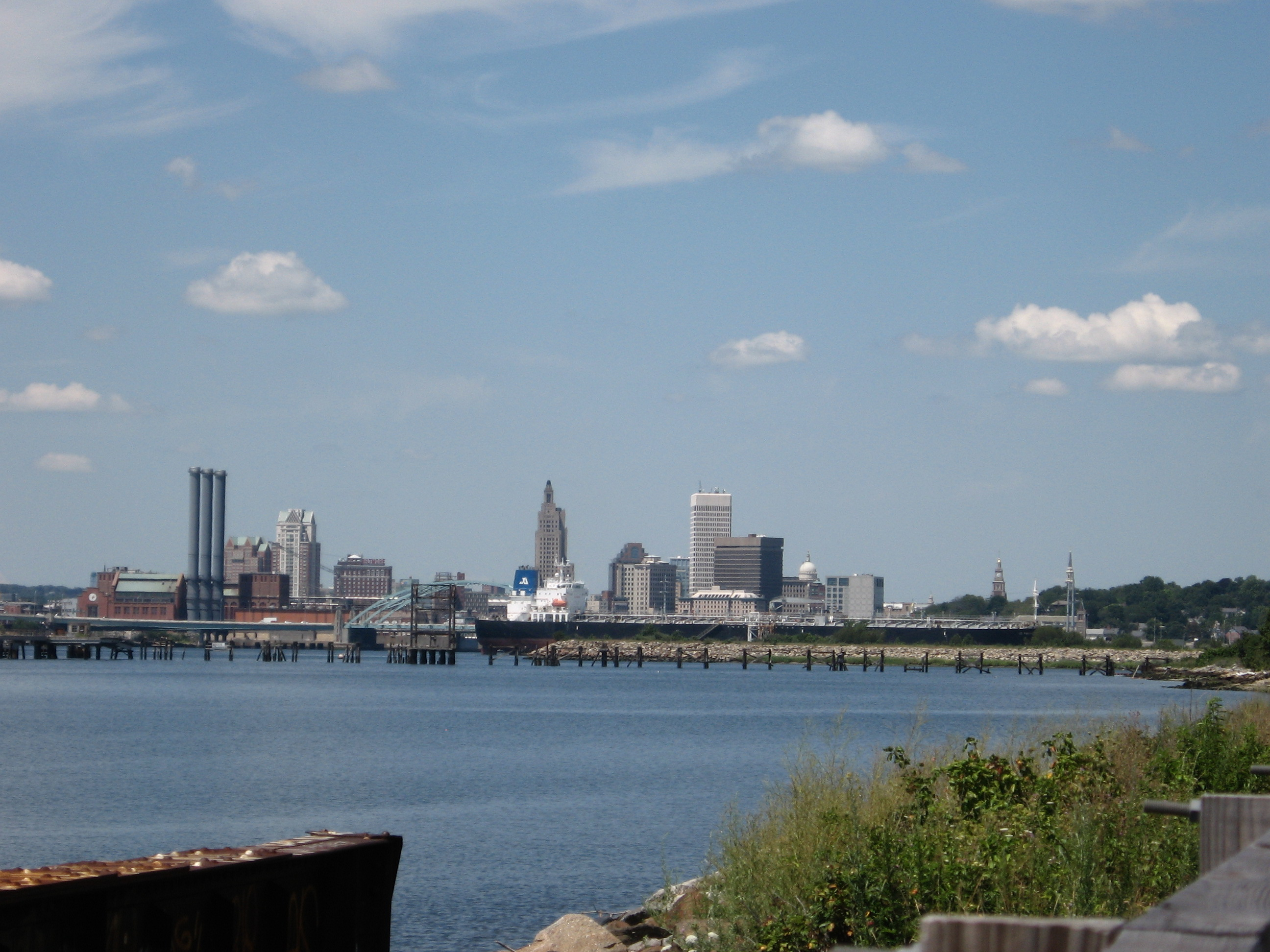 The view of Providence, RI from the East Bay Bike Path at it's northernmost cove crossing